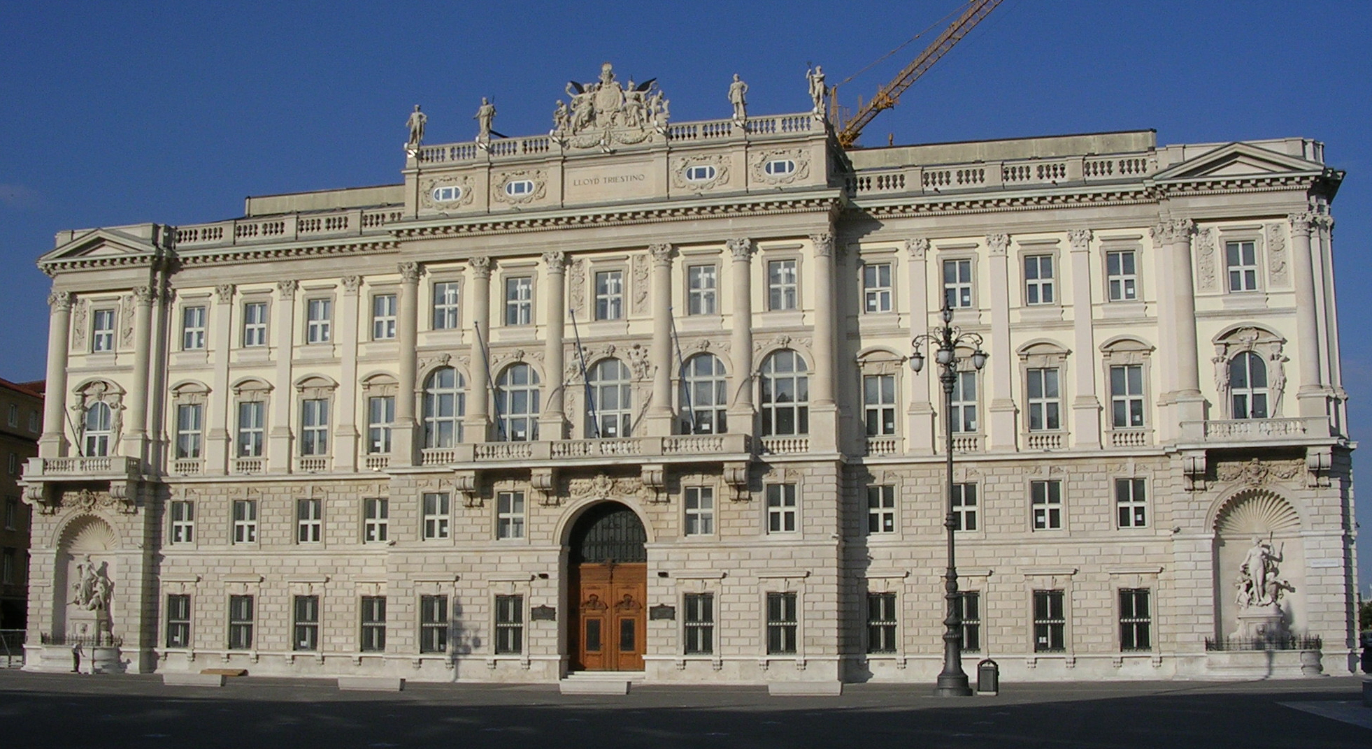 Headquarter of the Lloyd Triestino in Trieste, Italy. The building was originally built for the Lloyd Austriaco in 1879 by architect Heinrich von Ferstel.